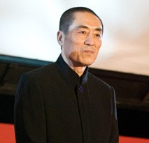 Opening Film Busan International Film Festival